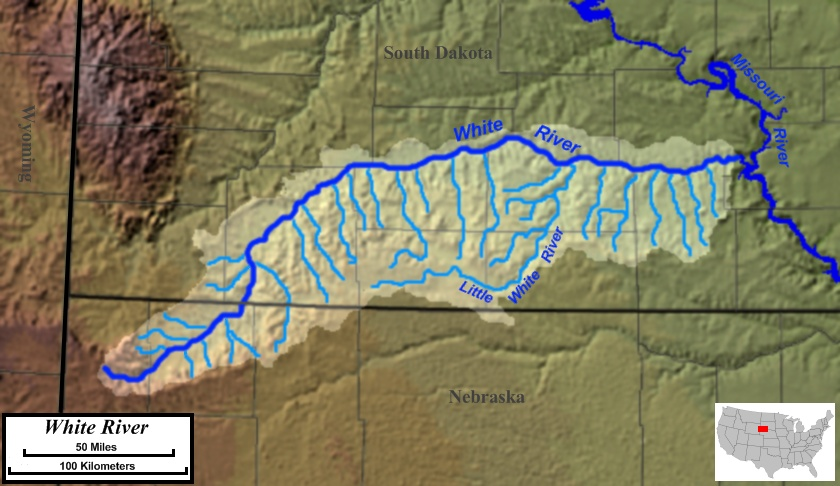 Map of the course, watershed, and tributaries of the White River in the US states of Nebraska and South Dakota.